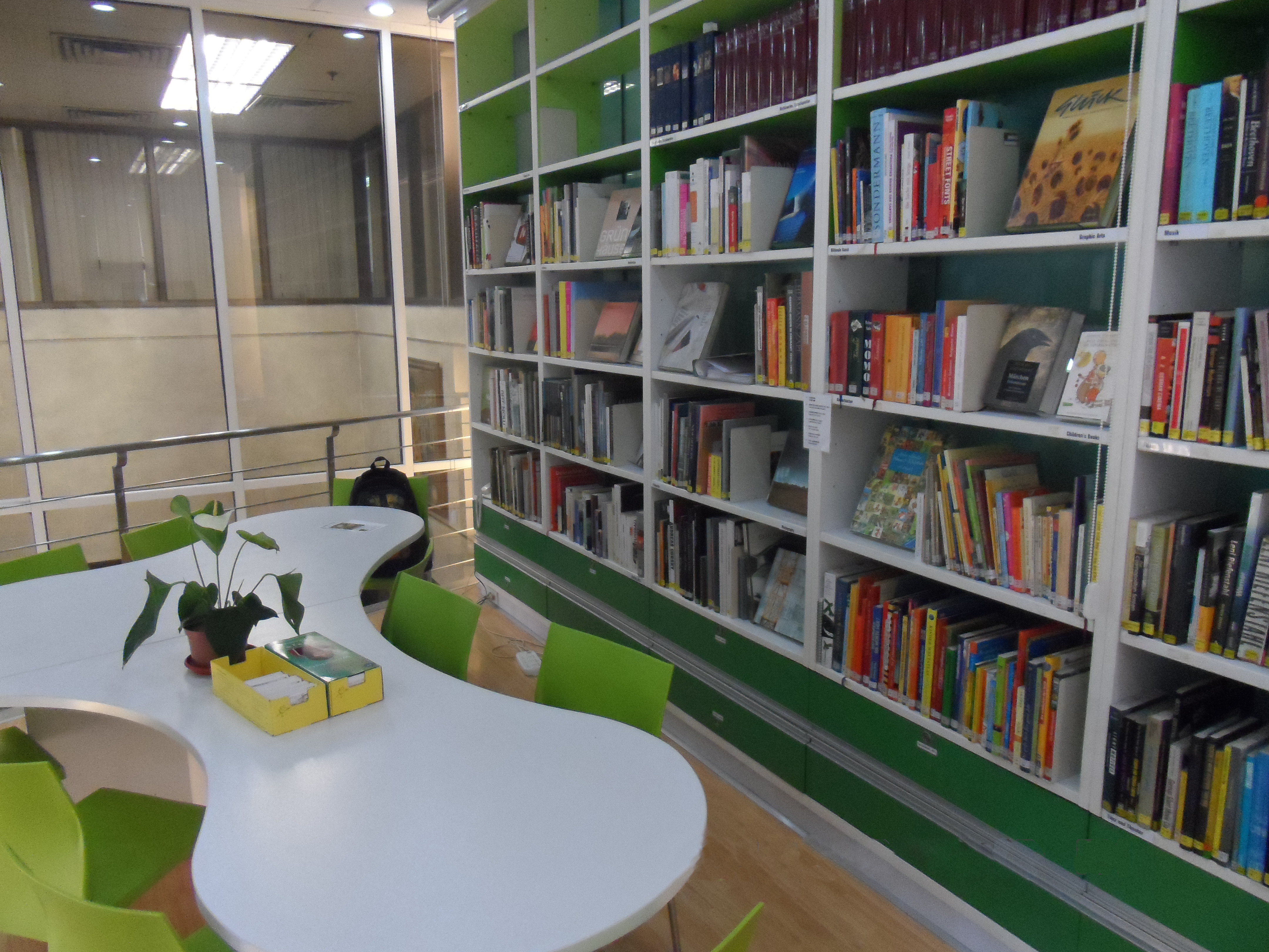 The second floor of the Goethe-Instut Philippinen in Makati City